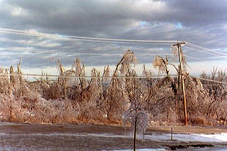 The Ice Storm of '98 - Tree damage and thick ice on electrical wires